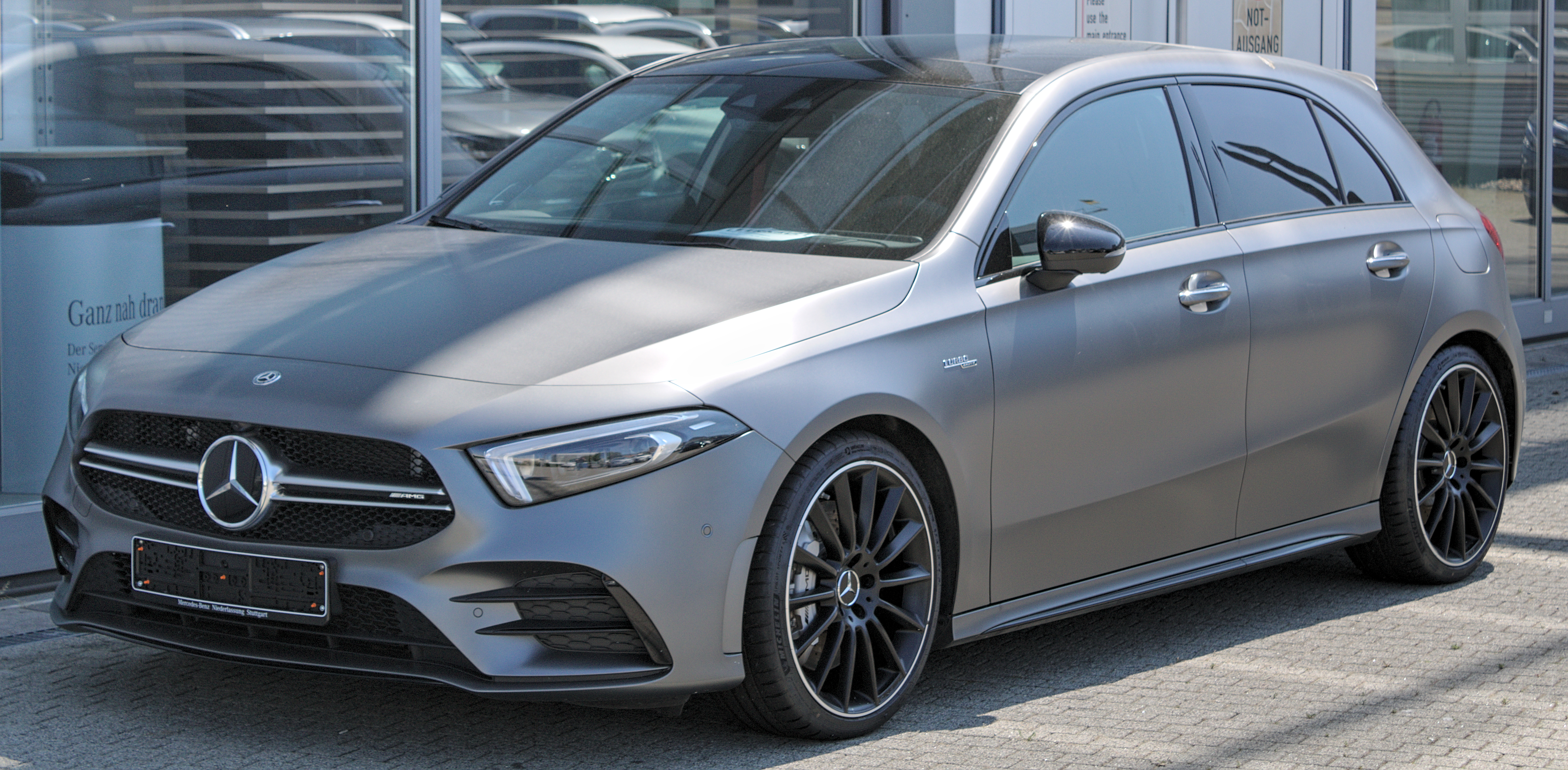 Mercedes-AMG_A_35_4MATIC_(W177) in Stuttgart